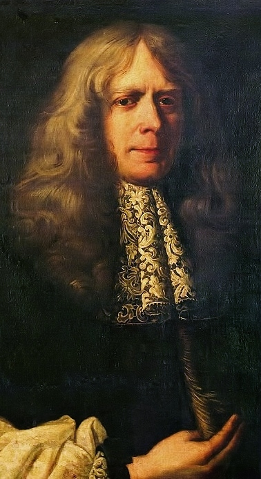 Luís de Vasconcelos e Sousa, 3rd Count of Castelo Melhor